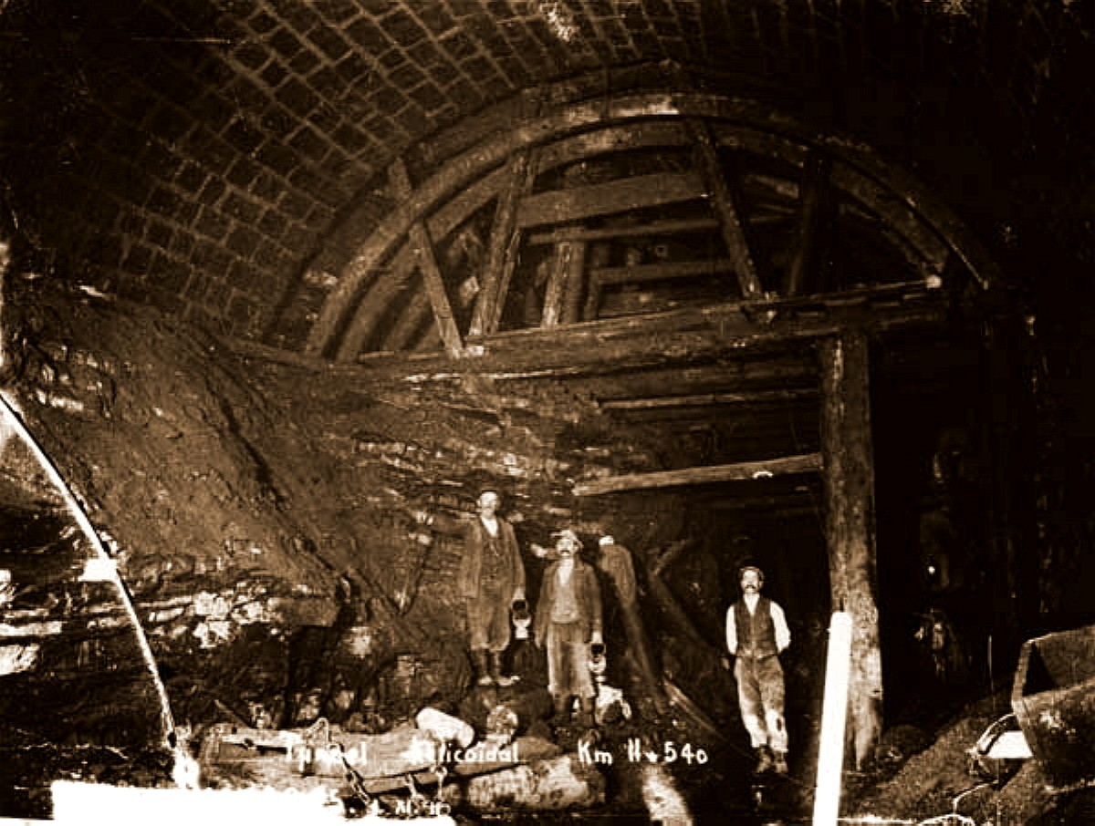 Lötschberg rail Tunnel